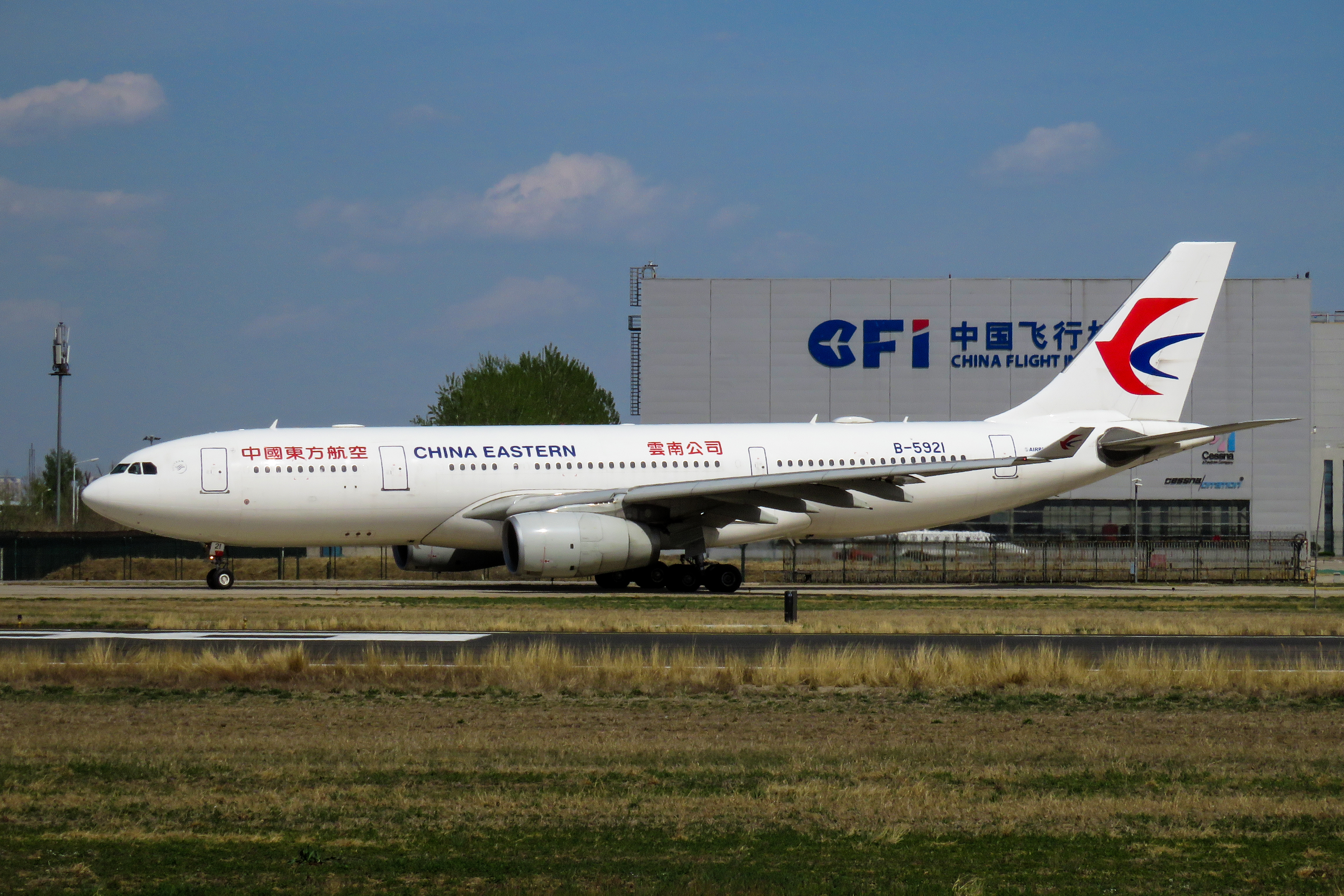 China Eastern 5704 to Kunming. This 33E would be returned to Shanghai following the introduction of 787-9 in October.